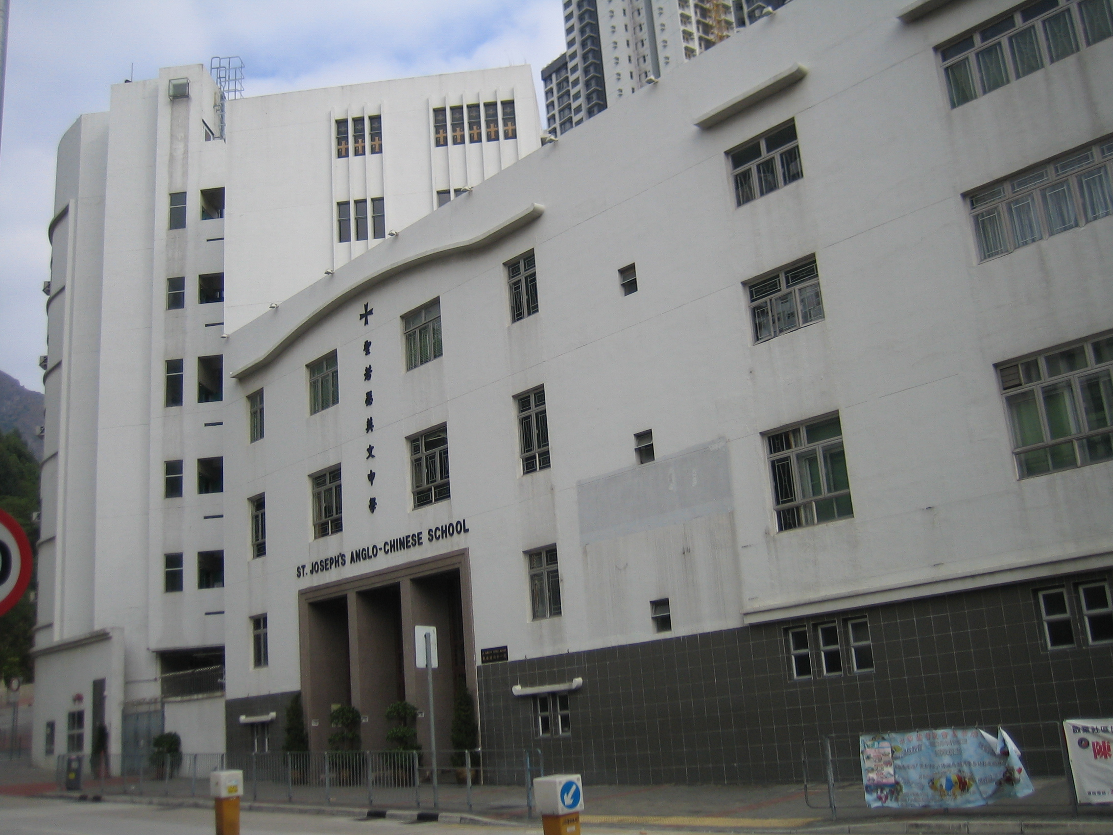 This image is SJACS campus which is taken from Choi Shek Lane, Hong Kong. If you have any questions about the licensing (like cc-by-sa, GFDL), or you want to republish the image without using the licensing shown as below, you are welcome to leave a message on the User Talk Page of my Chinese Wikipedia account. 中文（香港）: 這照片是聖若瑟英文中學現校舍，拍攝地點是香港九龍彩石里。 如你對這照片版權許可協議 (例cc-by-sa, GFDL) 有疑問，或你想把照片不用以下的版權協議轉載，歡迎你到我在中文維基百科的用戶對話頁留言。